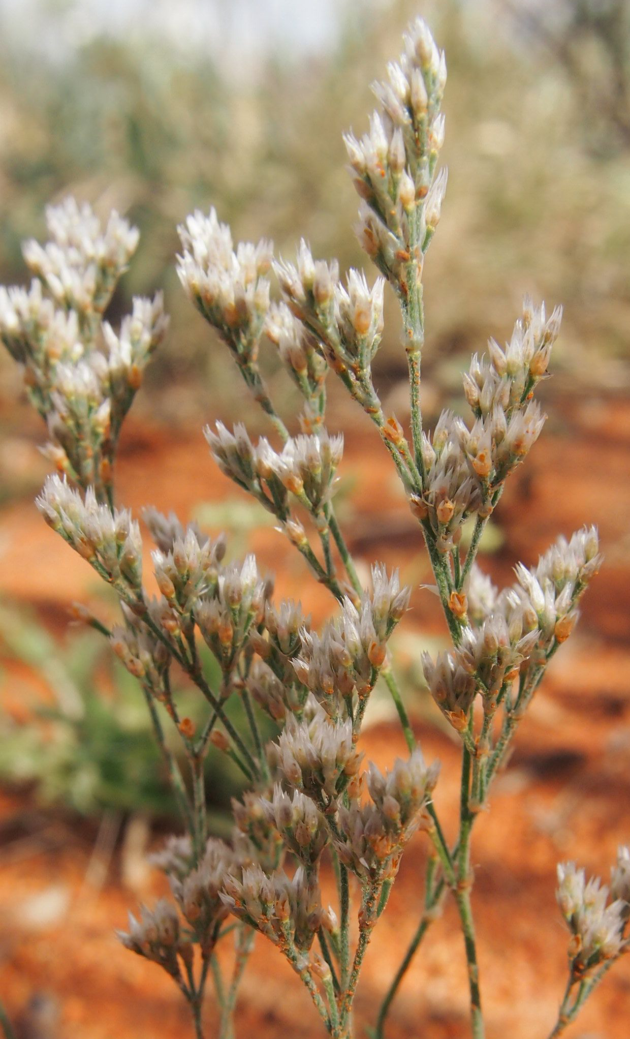 Polycarpaea corymbosa flowers